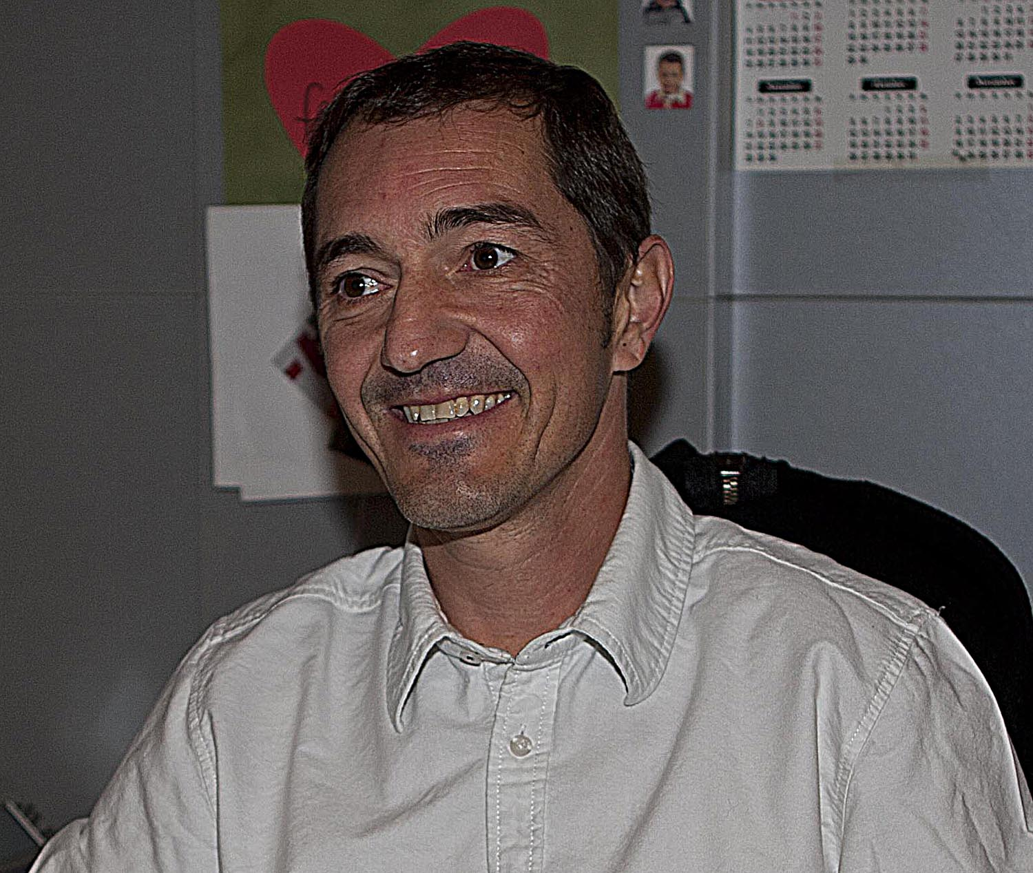 Joan Vinyes, Andorran racing driver